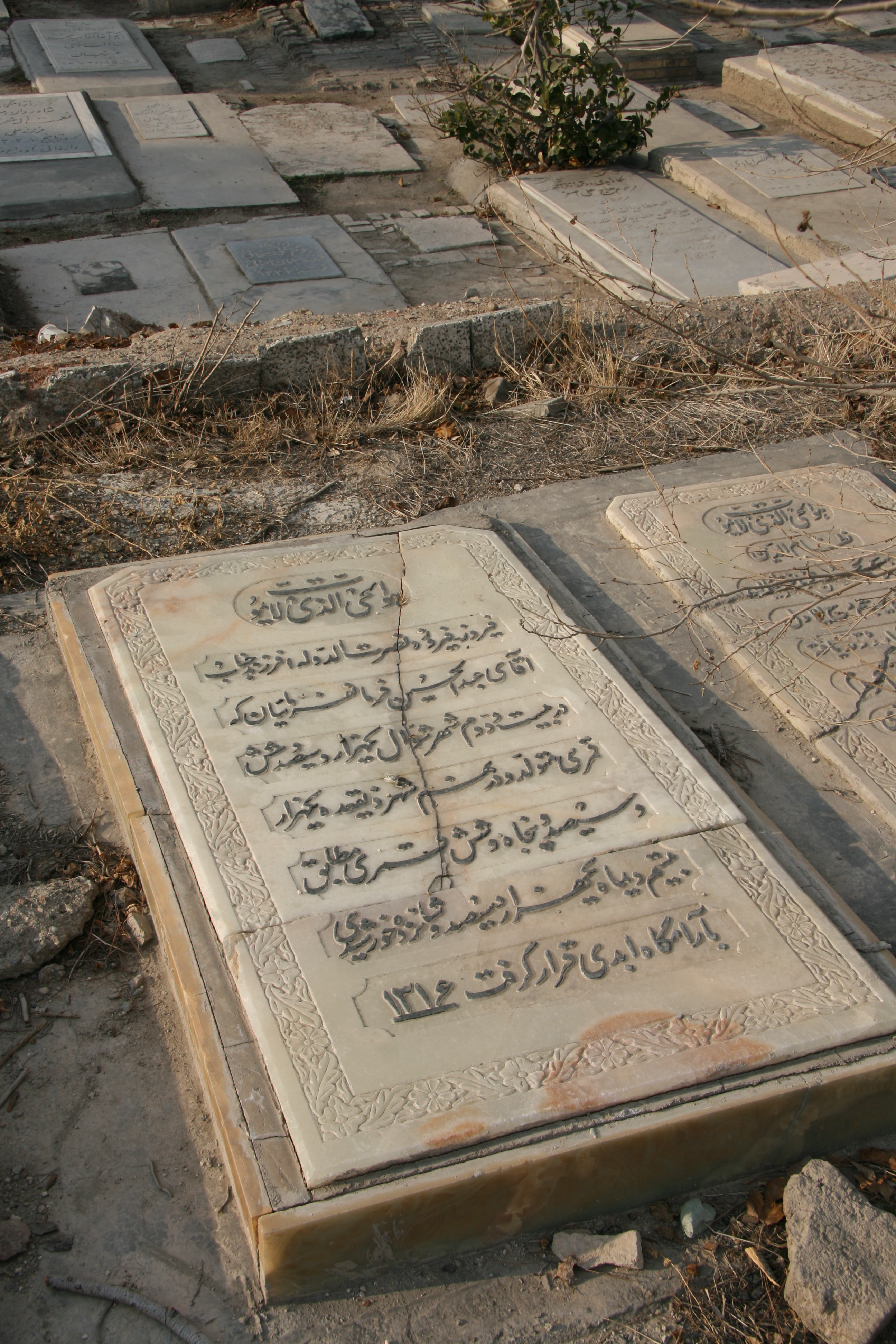 Firouz Nosrat-ed-Dowleh III